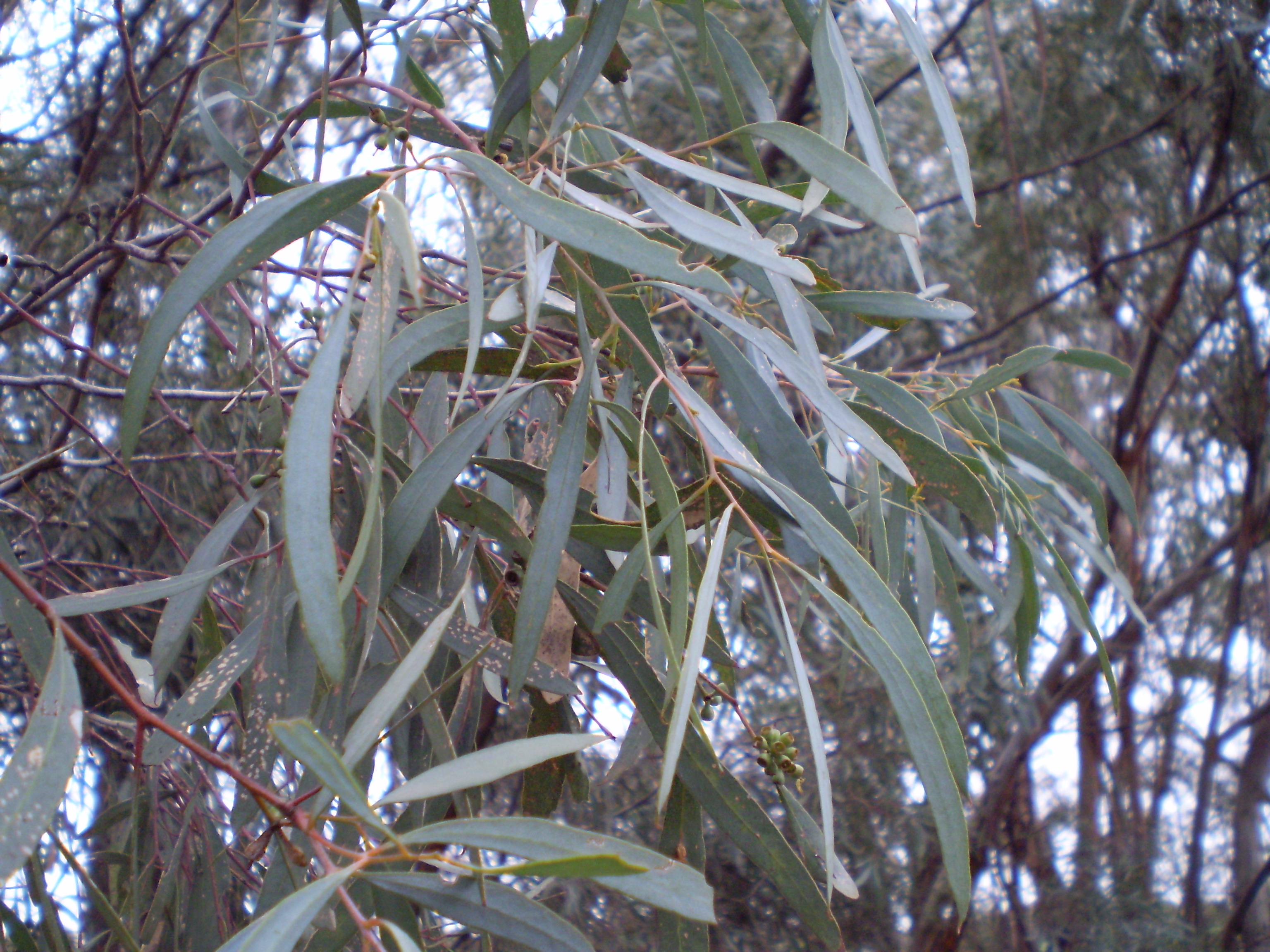 Eucalyptus polybractea, Blue-leaf Mallee, leaf and capsules, West Wyalong, New South Wales, Australia.